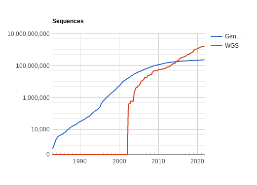 The growth of the GenBank database of genomic sequences over the past few decades. Blue: GenBank, Red: WGS.